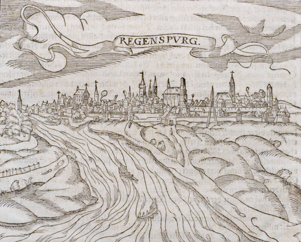 View of Regensburg from 1574 from the Cosmographia of Sebastian Muenster